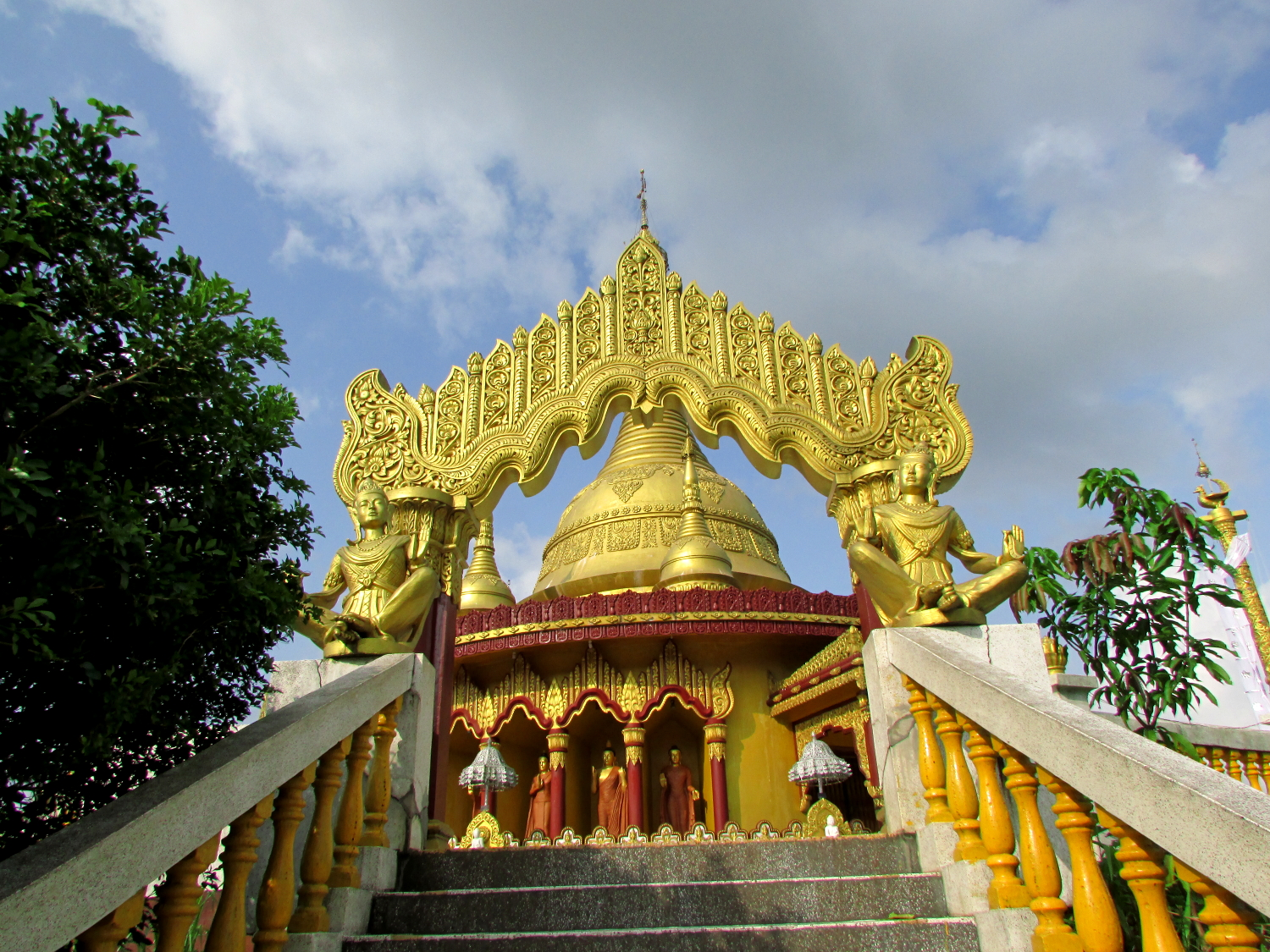 Shorno Mandir (Golden Temple), a holy place for the Bhuddists.